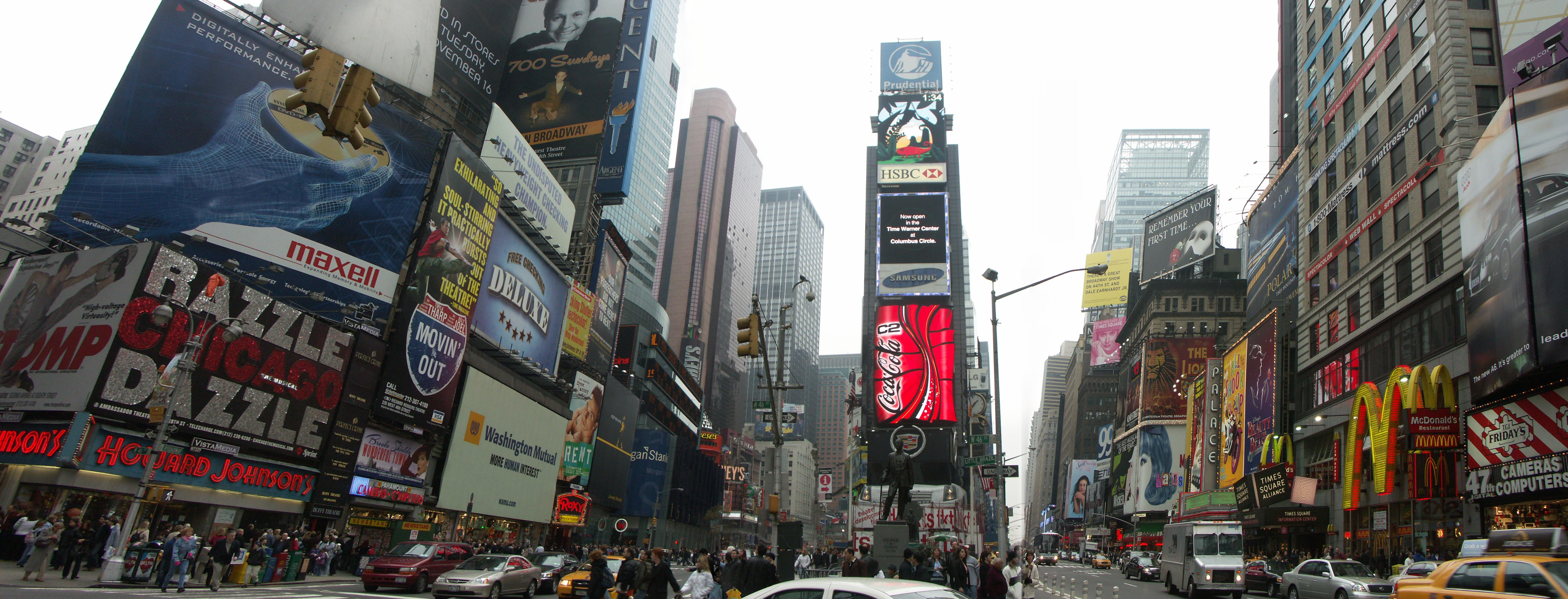 Times Square Panorama - New York City - November 2004